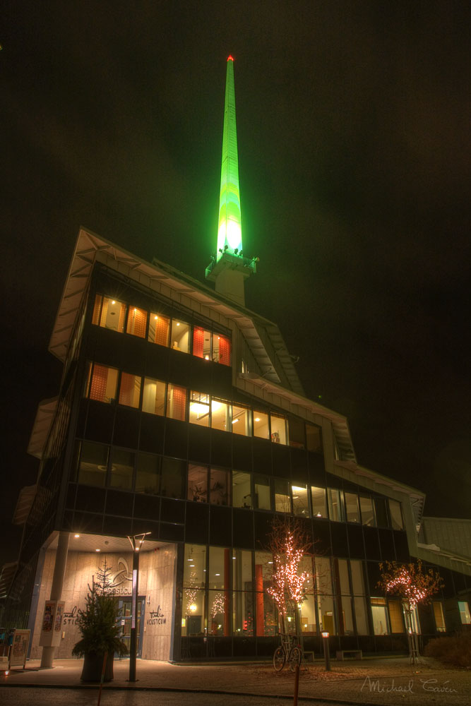 Acusticum, the music high school in Piteå.